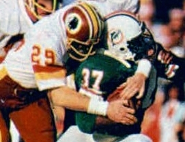 Washington Redskins' safety Mark Murphy (left) tackles Miami Dolphins running back Andra Franklin (right) in Super Bowl XVII.